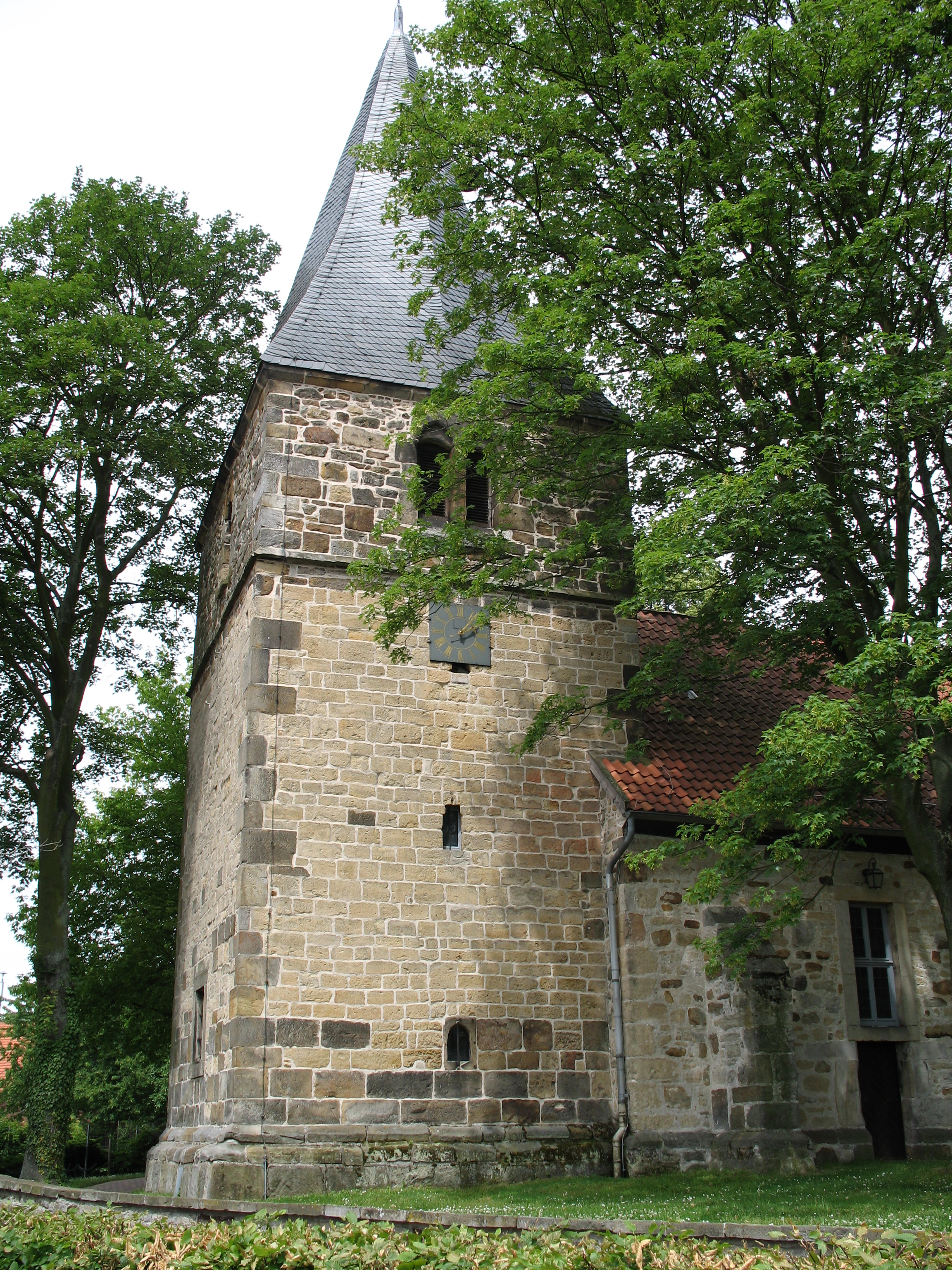 Church in Leveste, Lower Saxony, Germany.